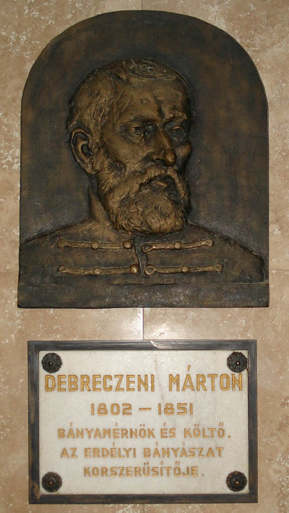 Relief of Márton Debreczeni (mining engineer, poet, 1802–1851). Sculptor: Éva Varga (1990). Márton Debreczeni Technical College, Pereces, Miskolc, Hungary